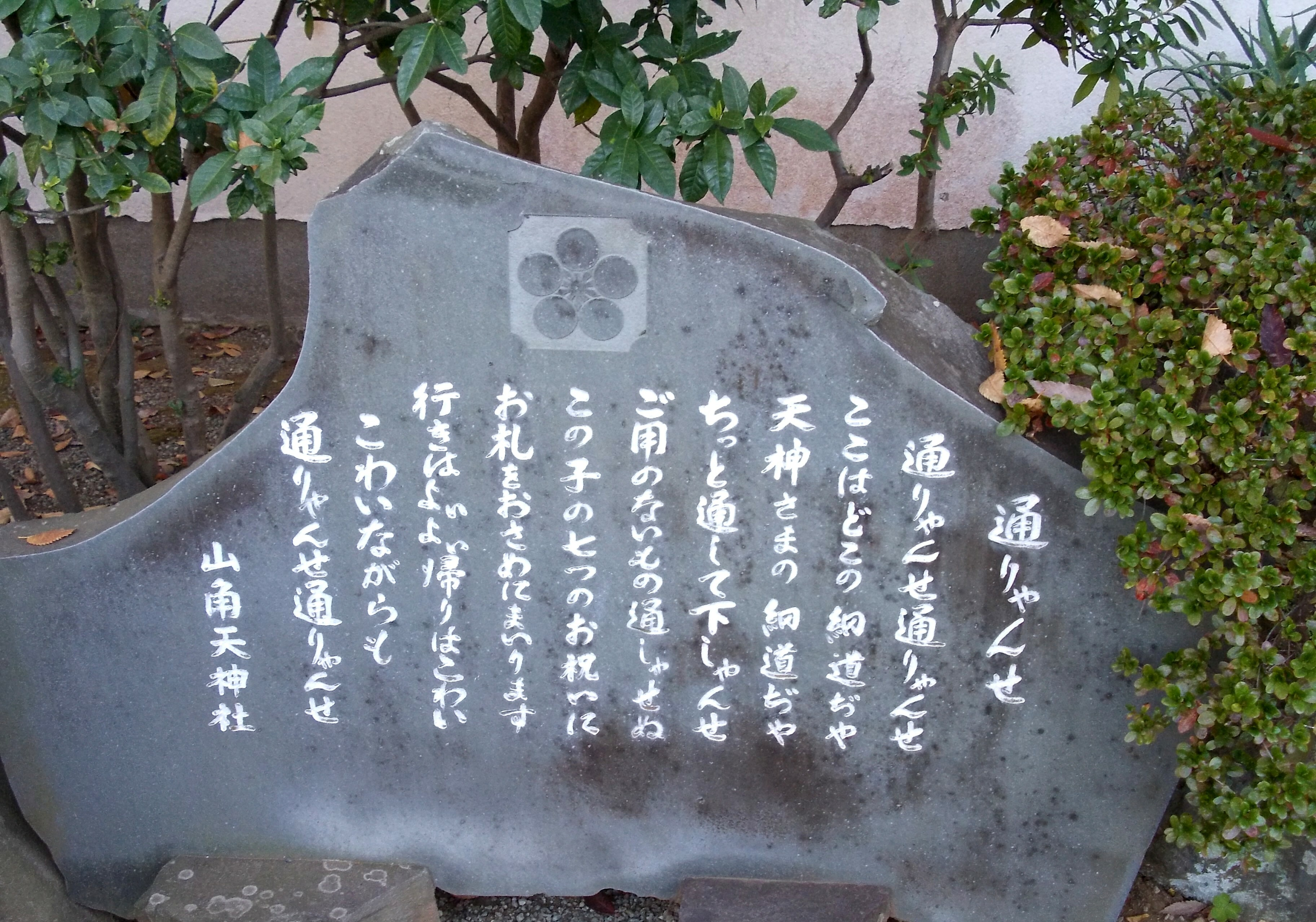 Tōryanse